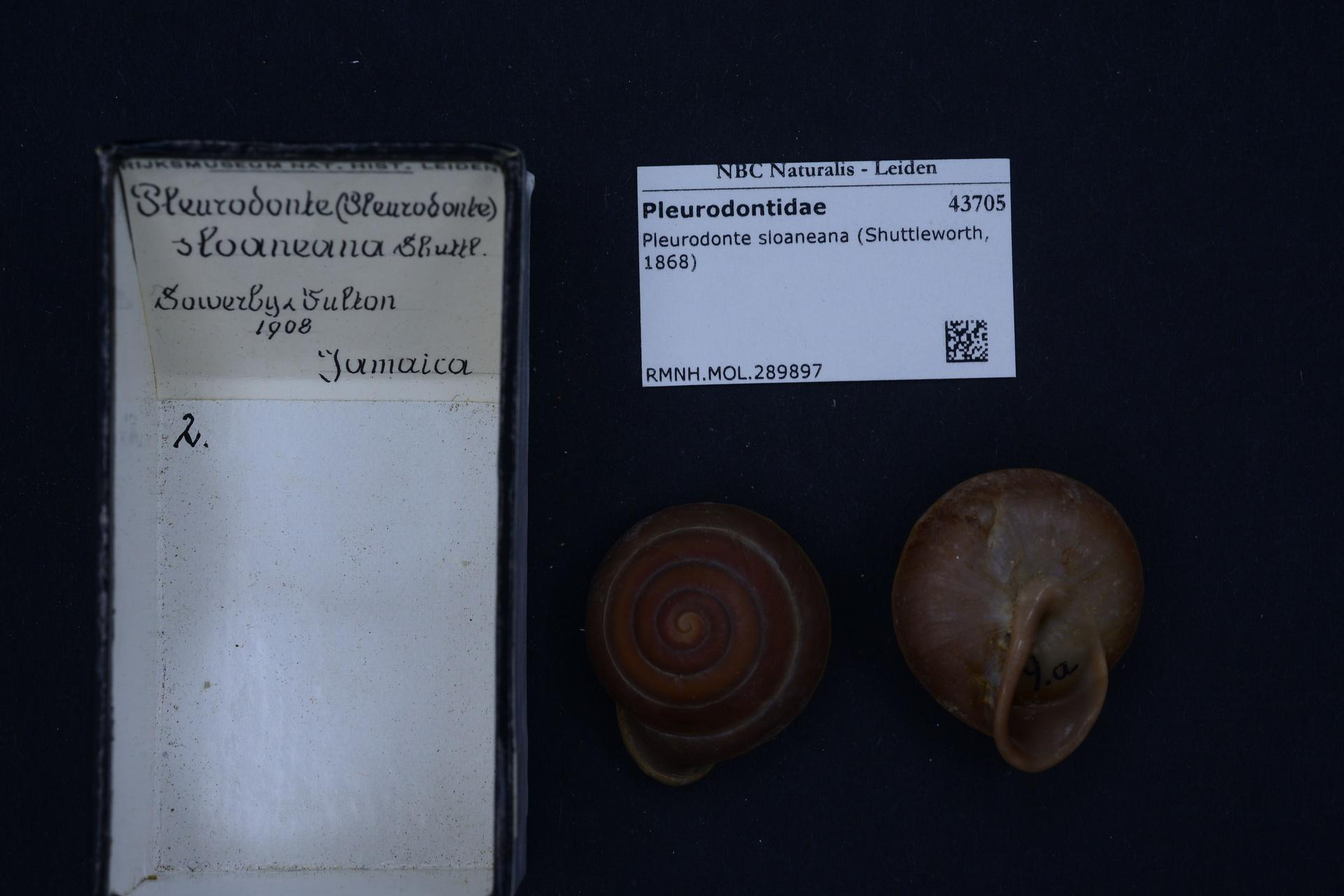 Pleurodonte sloaneana (Shuttleworth, 1868)